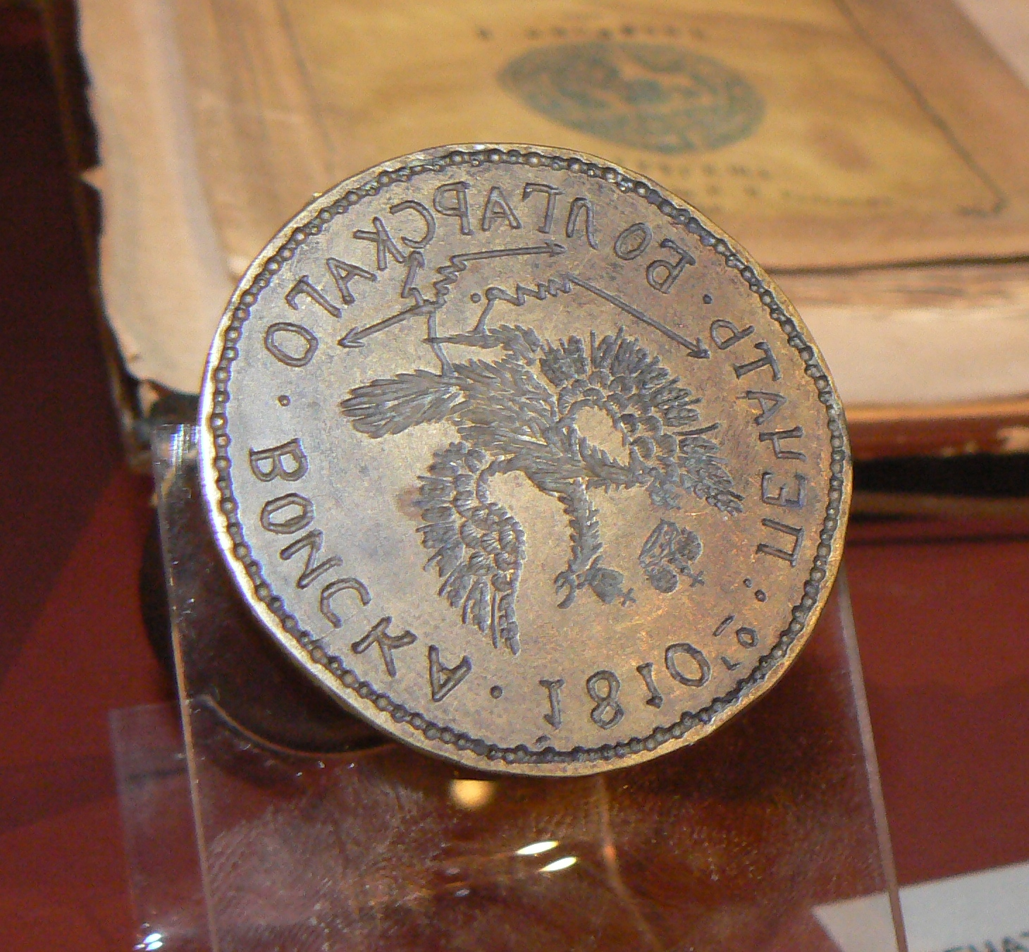 Seal of the Bulgarian Voluntary Troops, 1810. Exhibit of the National History Museum of Bulgaria